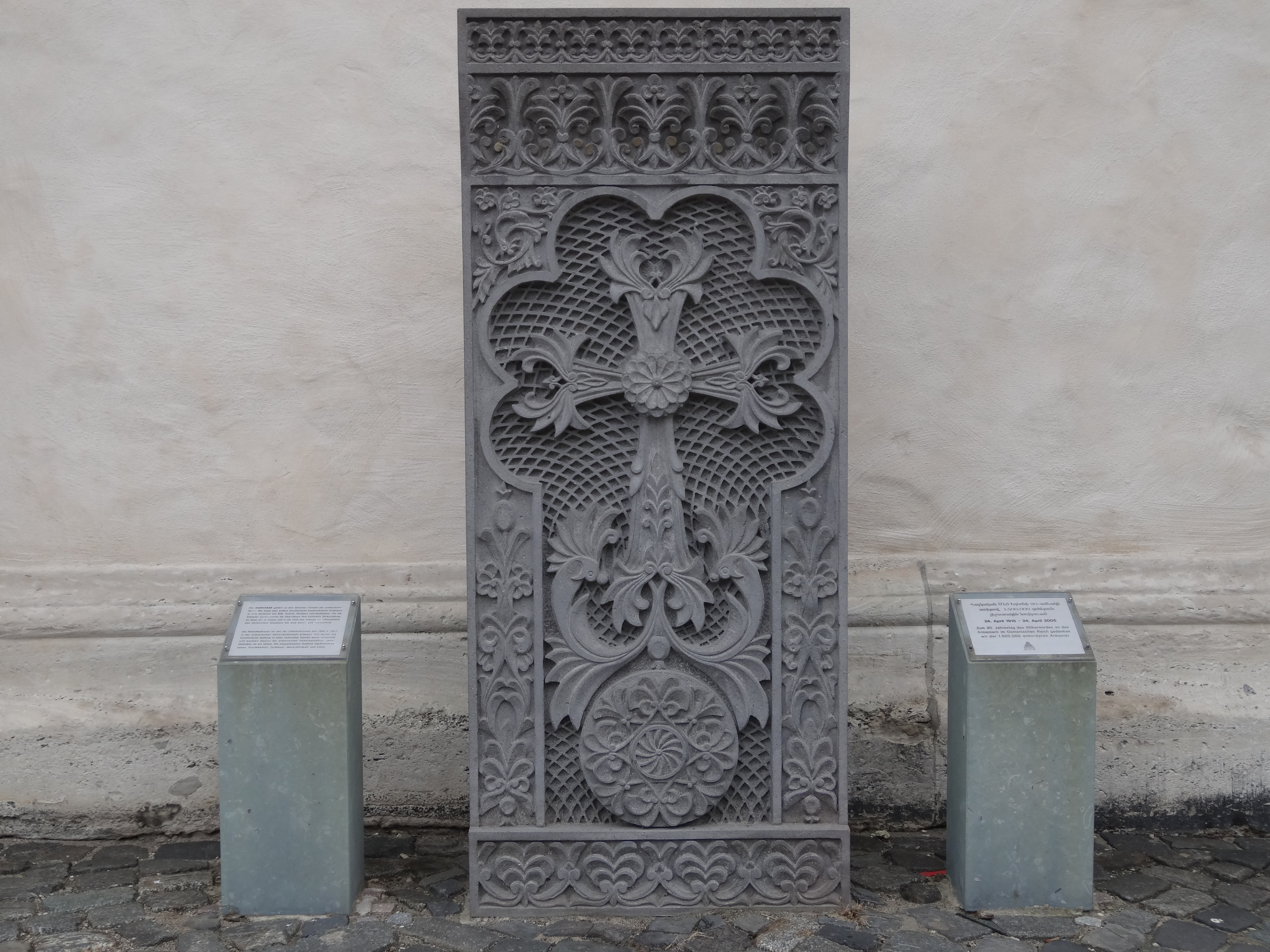 Khatchkar in Braunschweig, Germany